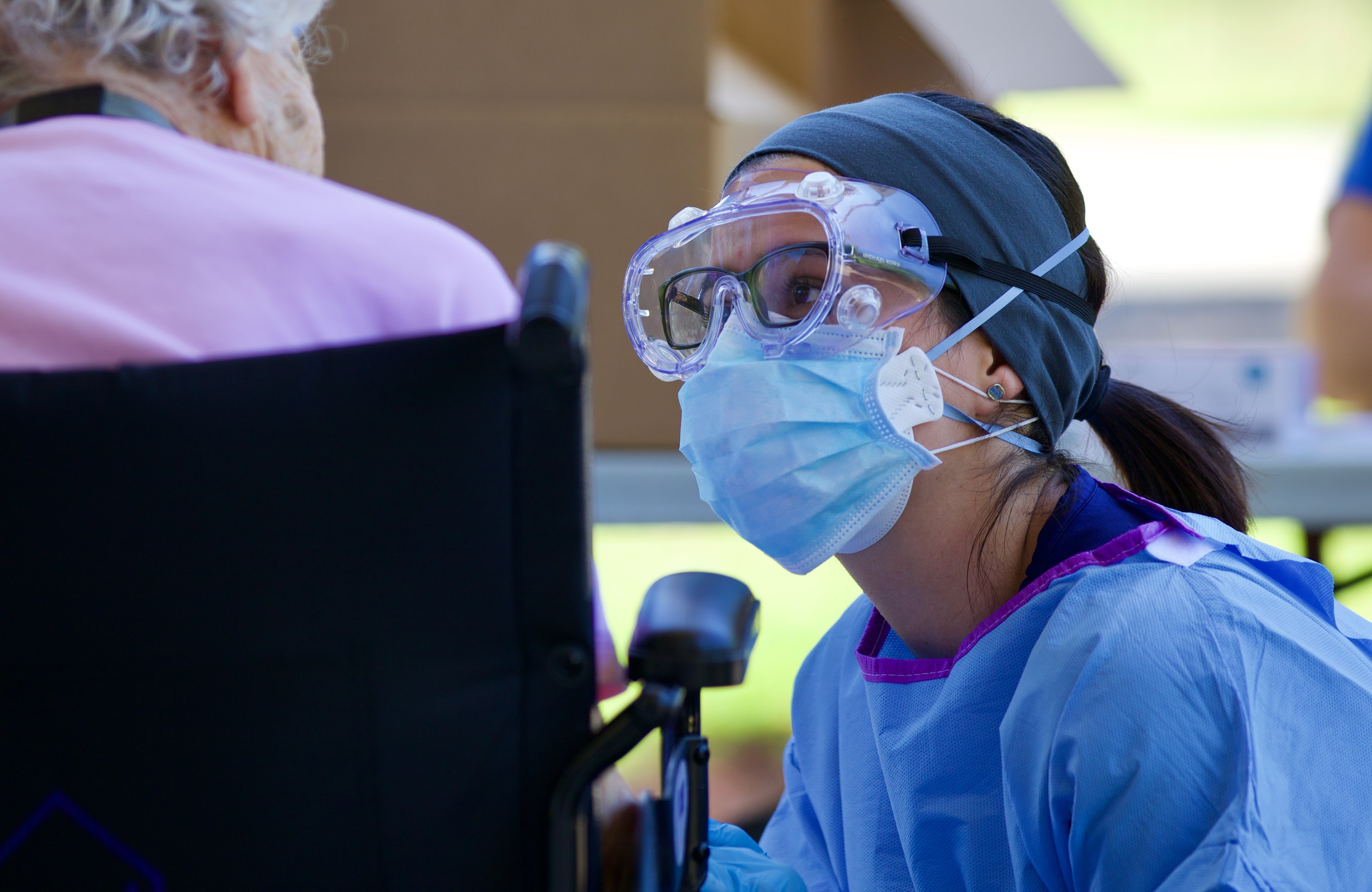 Jennifer Romero, a register nurse with the Florida Department of Health, explains the process of the specimen collection to a nursing home resident in Northeast Florida, May 1, 2020. The Florida National Guard is teamed up with medical professionals from the FDOH to accommodate those unable to travel to the community-based testing sites through the creation of mobile testing teams.